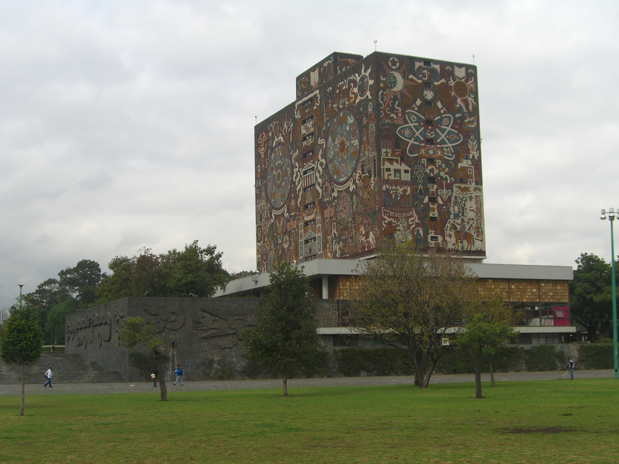 Central library of the National Autonomous University of Mexico on the campus of Mexico City. (built by Juan O'Gorman)